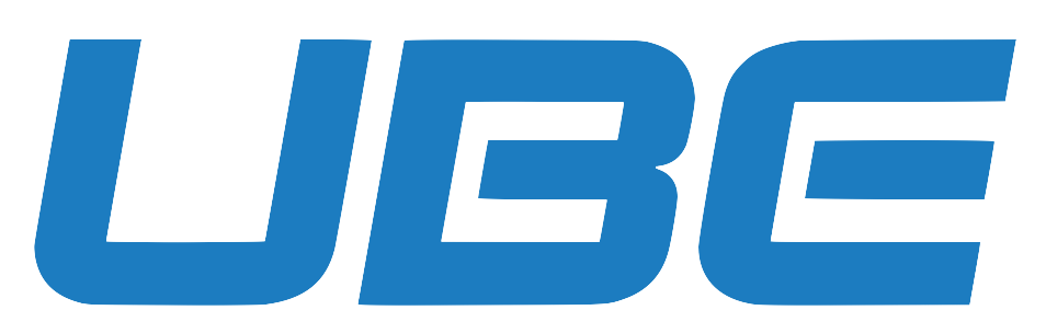 Wordmark of Ube Industries . Trademarked by UBE INDUSTRIES,LTD.